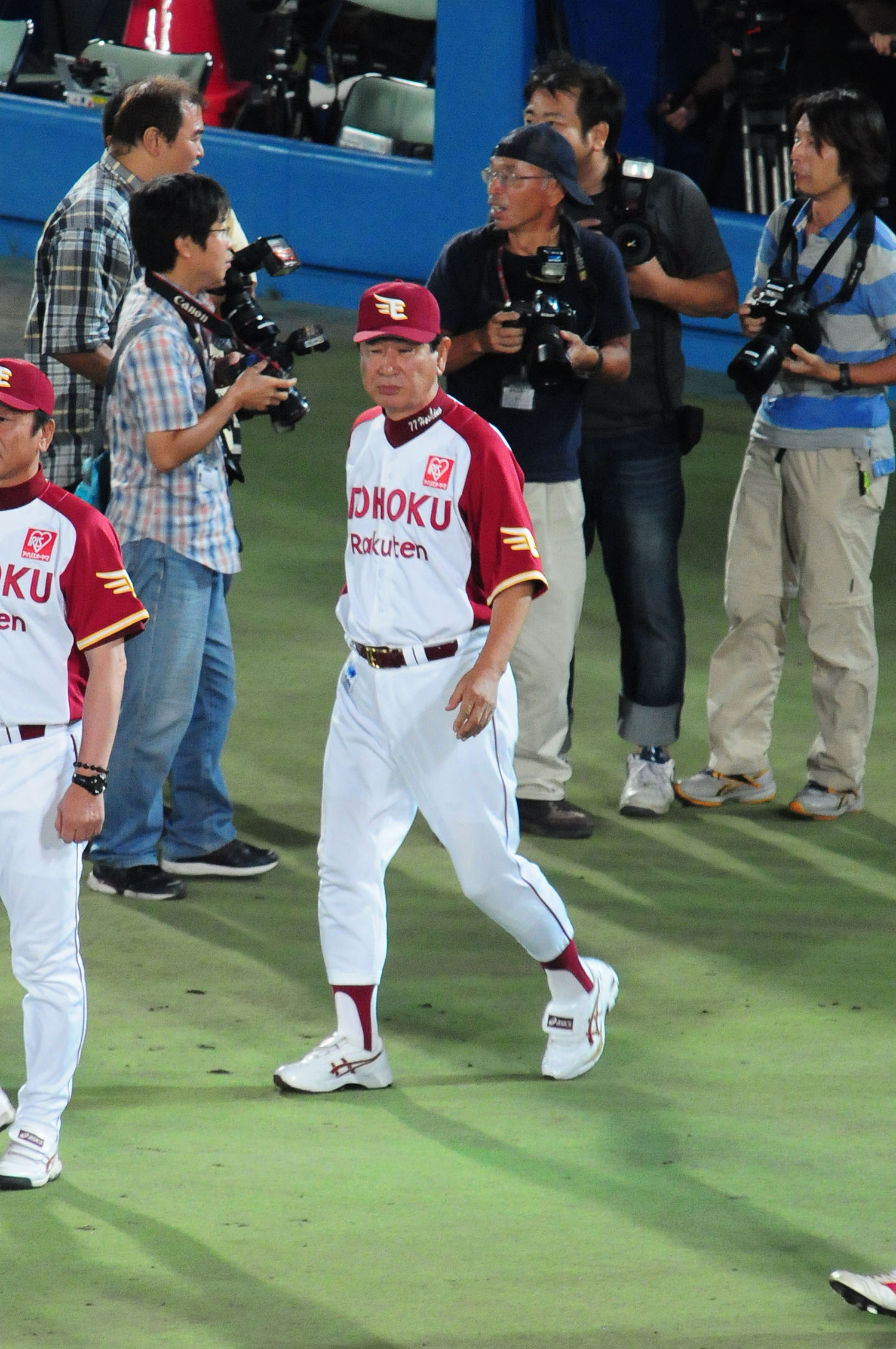 Senichi Hoshino, manager of the Tohoku Rakuten Golden Eagles, at Akita Prefectural Baseball Stadium.